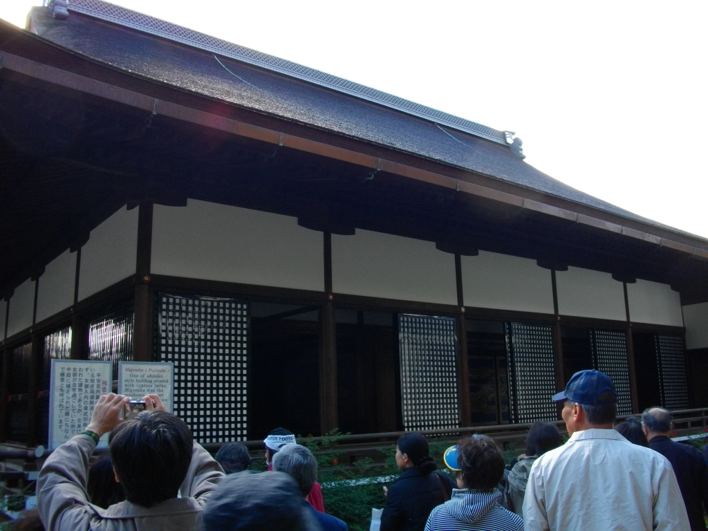 Higyosha